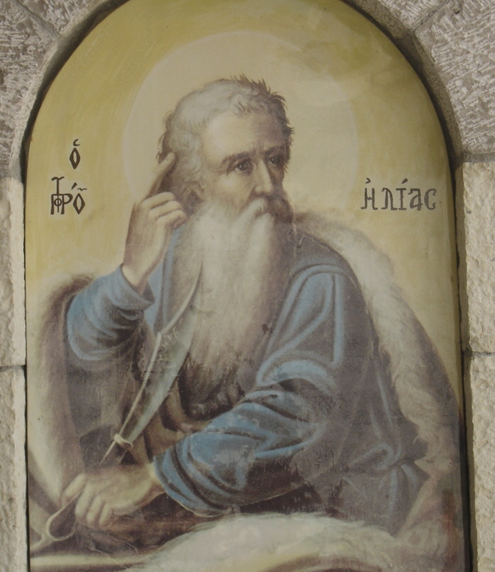 A painting on a wall in a monastery in Fokida, Greece, depicting Prophet Elias.